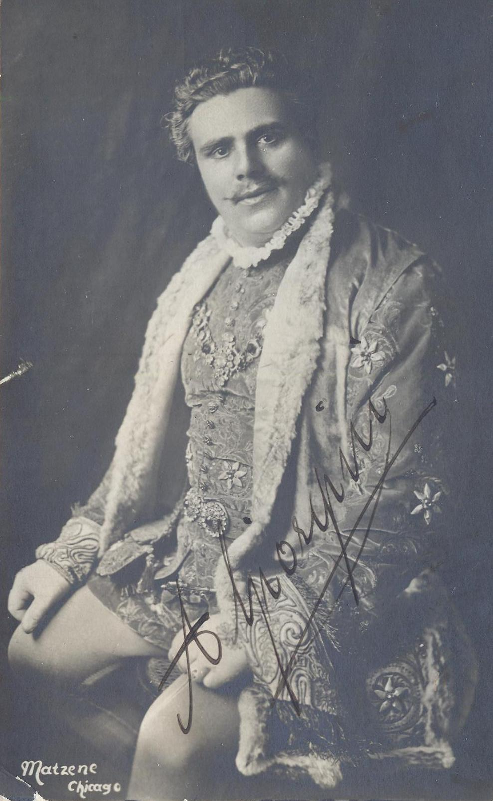 Portrait of of the Italian opera singer Aristodemo Giorgini (1879–1937) as the Duke of Mantua in Rigoletto